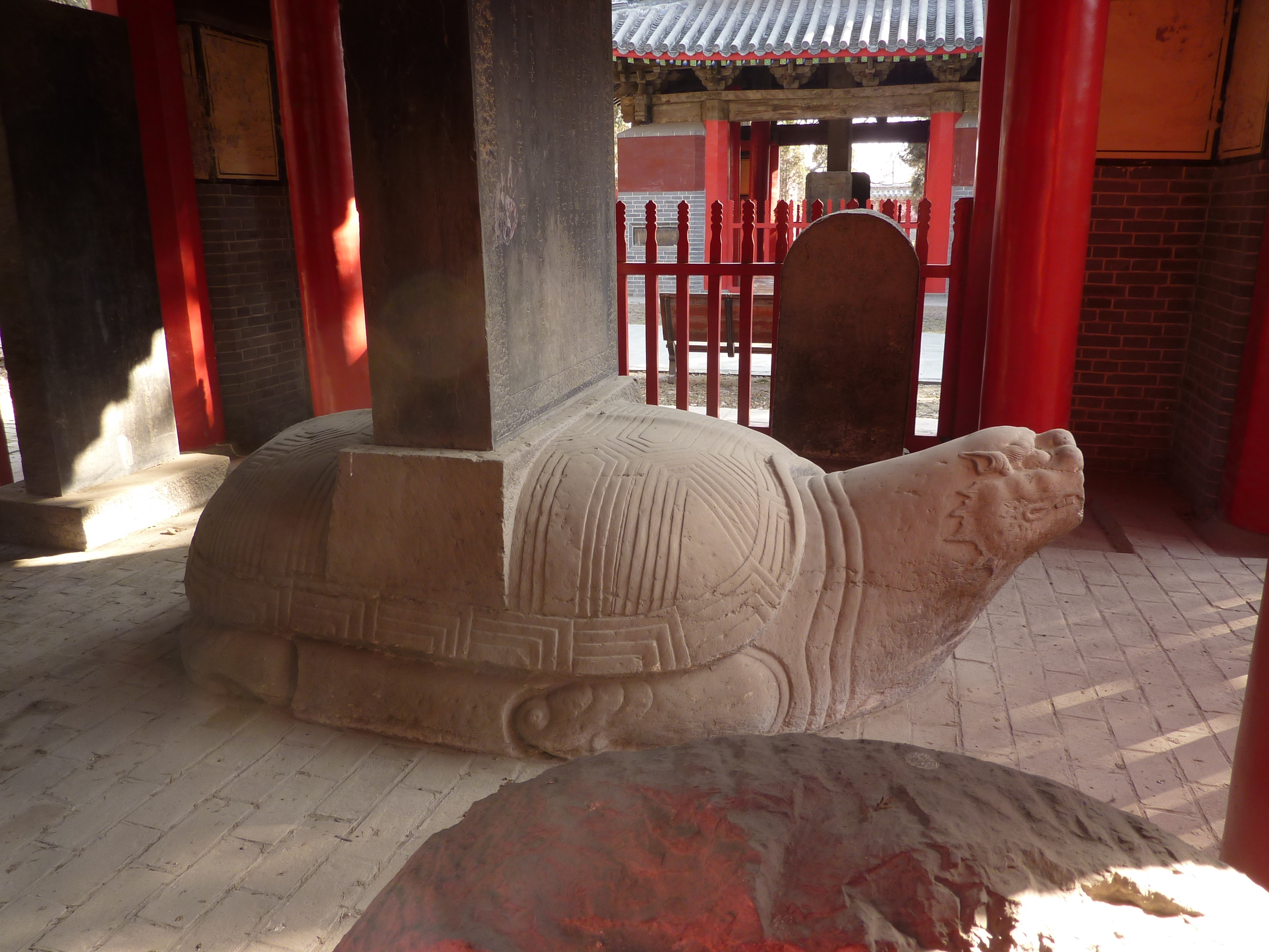 The western stele pavilion of the middle court of the Temple of Yan Hui (Yan Miao), housing the Yan Miao Renovation Stele (Year 4 of Zhengde era, 1509 CE).